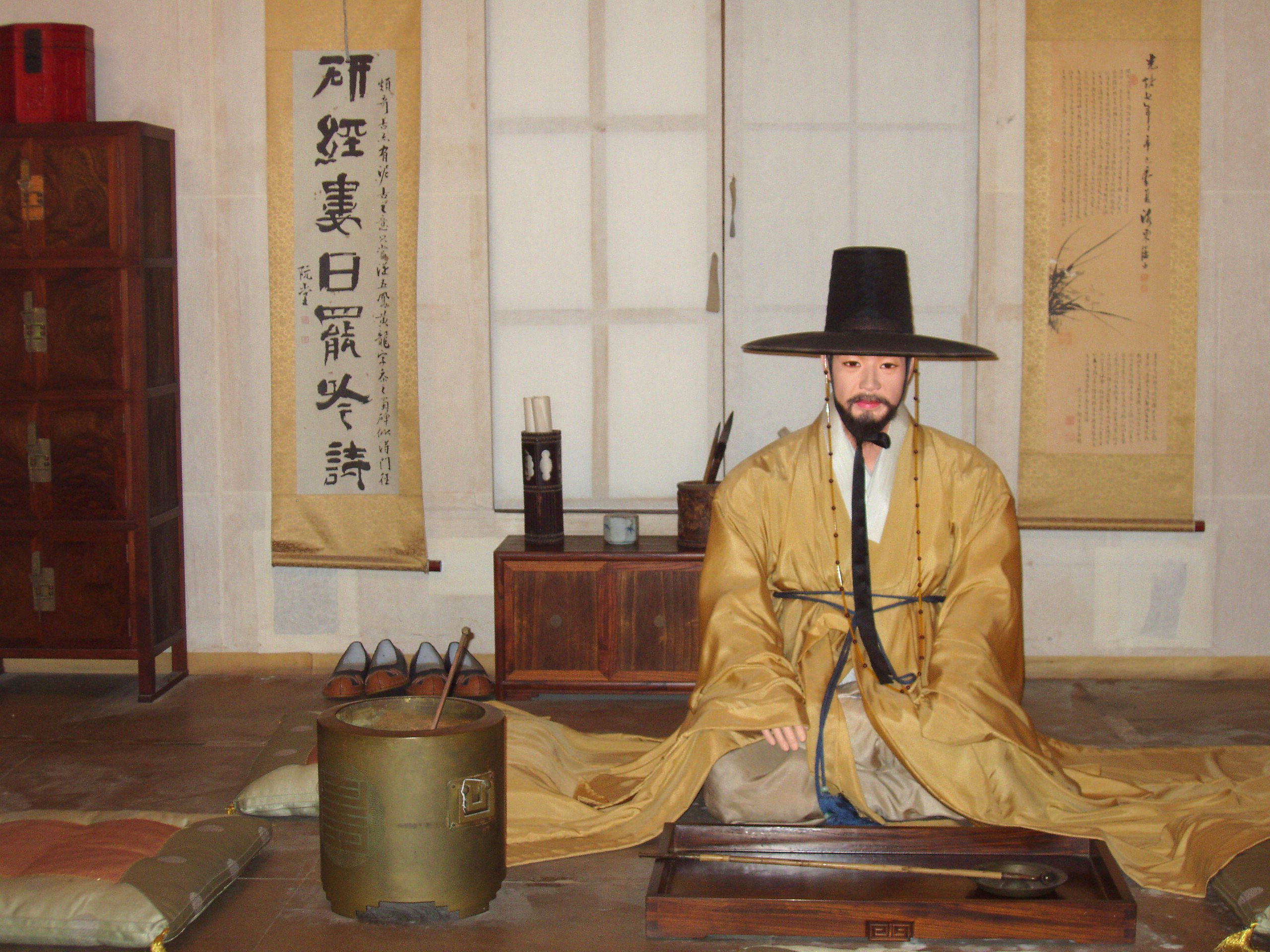 Interior 1, Unhyeongung - Seoul, Korea.